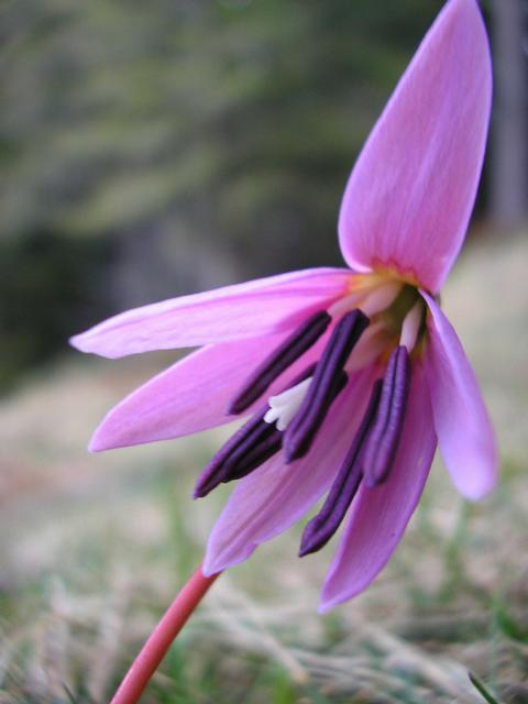 (en) Erythronium dens-canis, a photography originating of the internet site The accord of the autor, H. Brisse, is here. (fr) Erythronium dens-canis, une photographie issue du site internet L'accord de l'auteur, H. Brisse, se situe ici.